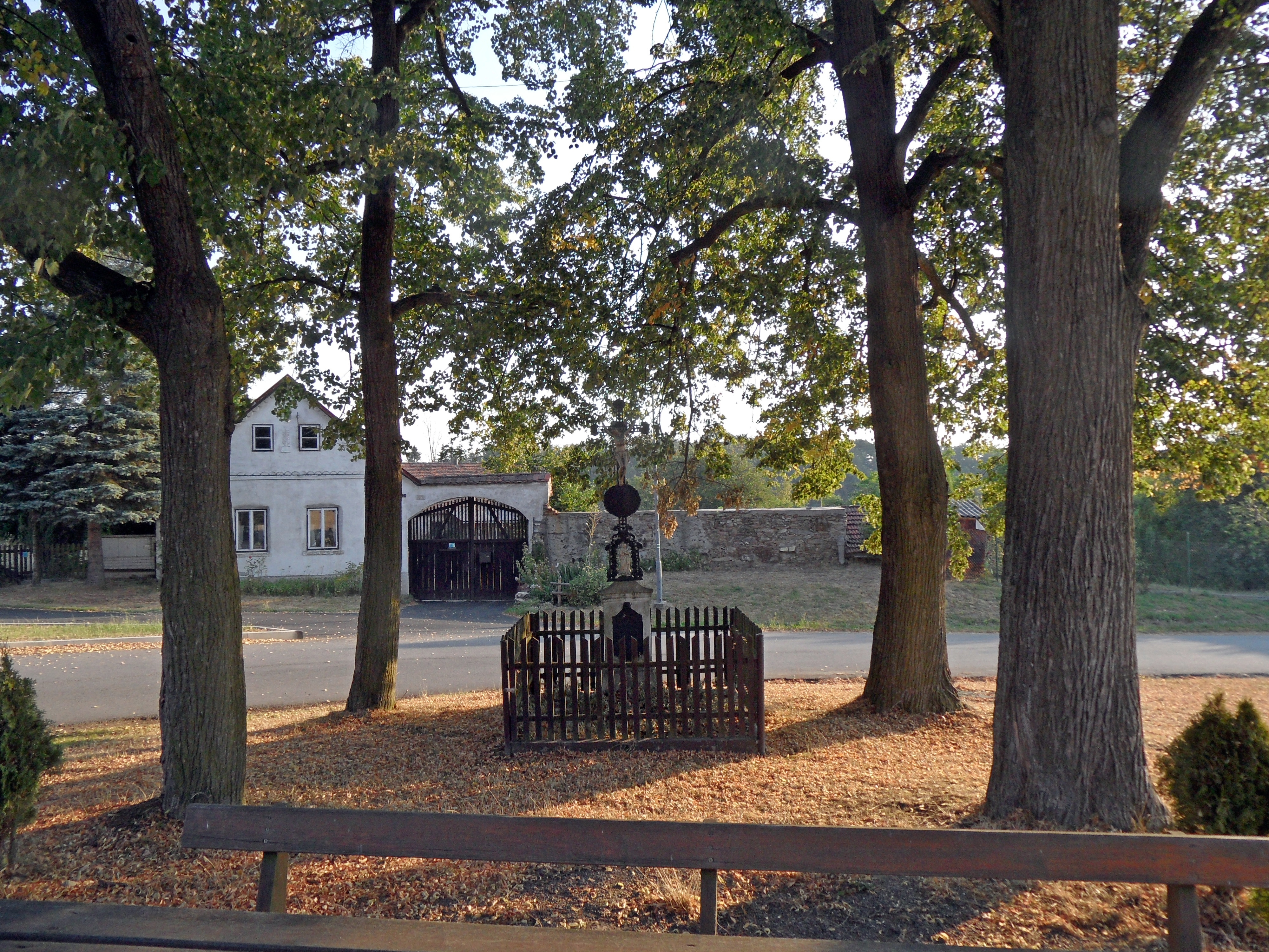 Petrovice u Uhelné Příbramě J. Crucifix among Trees. Havlíčkův Brod District, the Czech Republic.